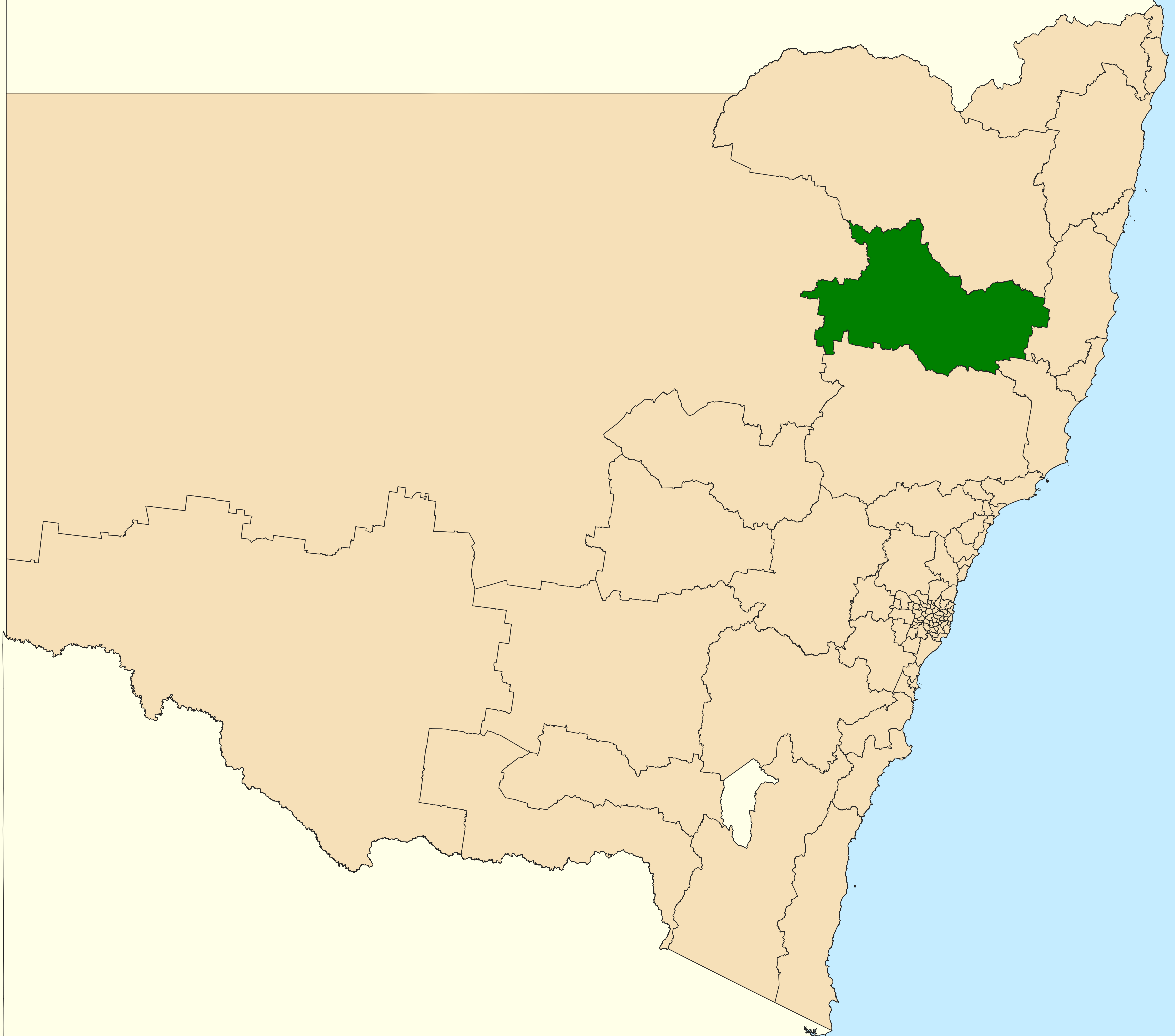 Location of the state electoral district of Tamworth (dark green) in New South Wales as of the 2019 New South Wales state election. Incorporates or developed using Administrative Boundaries ©PSMA Australia Limited licensed by the Commonwealth of Australia under Creative Commons Attribution 4.0 International licence (CC BY 4.0).